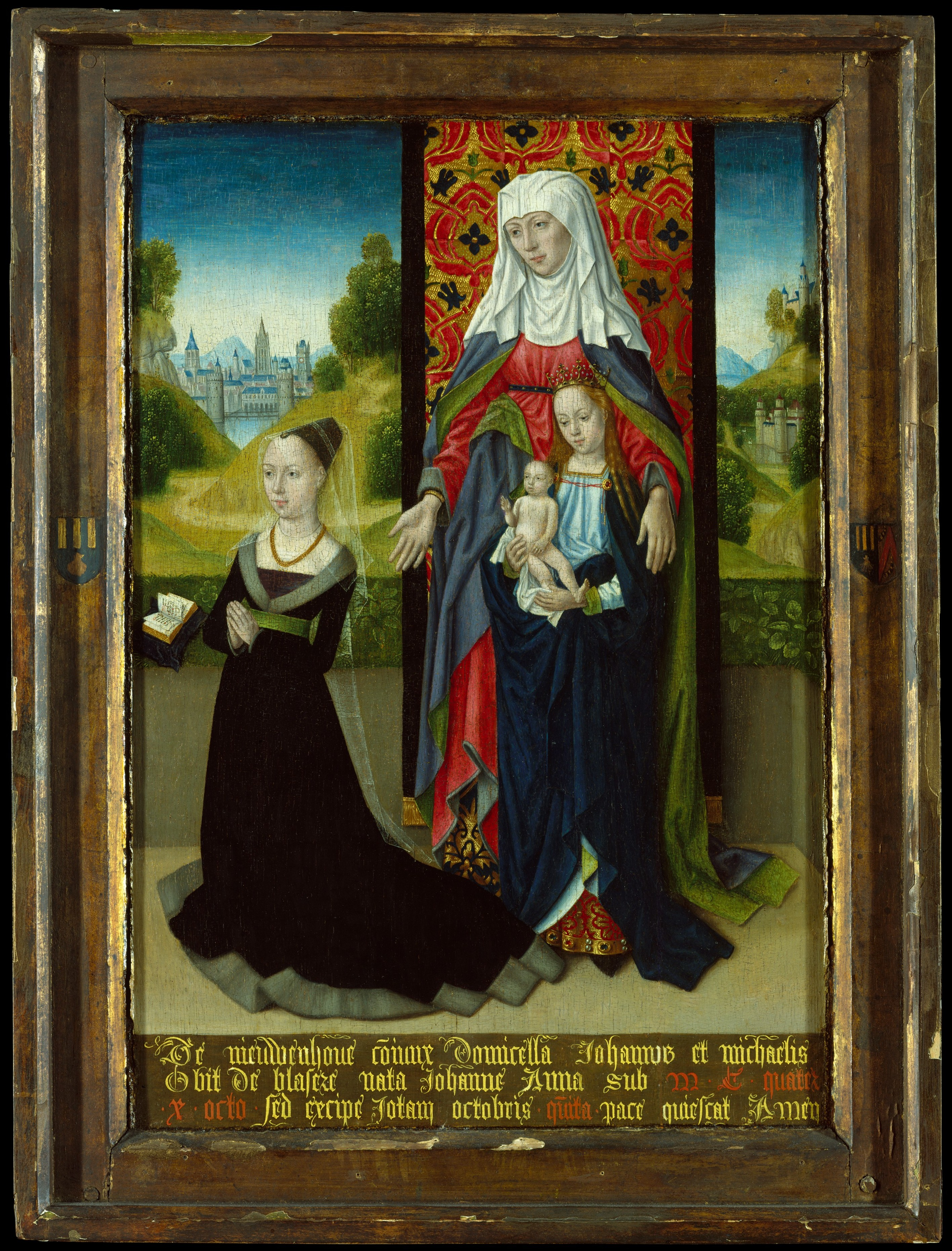 Netherlandish; Painting; Paintings